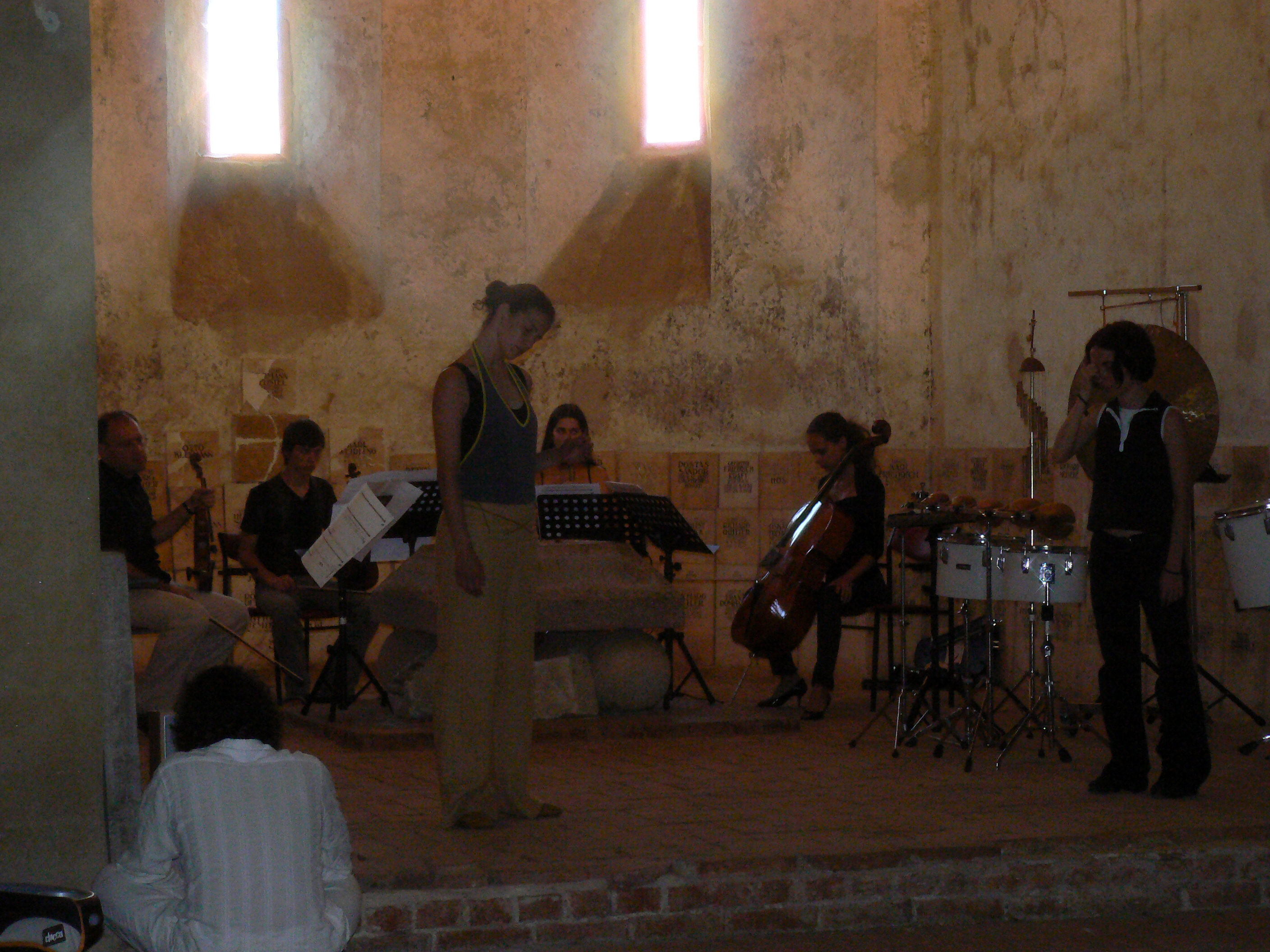 An ICon Arts (International Contemporary Arts summer classes) show (mix of music with dance) in Saint Michael's Basilica, Cisnădioara, Romania.